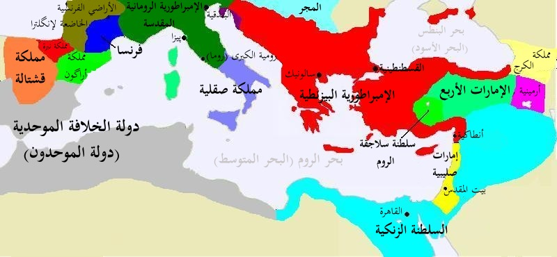 The Byzantine Empire and Mediterranean world by 1173 AD (ar version)